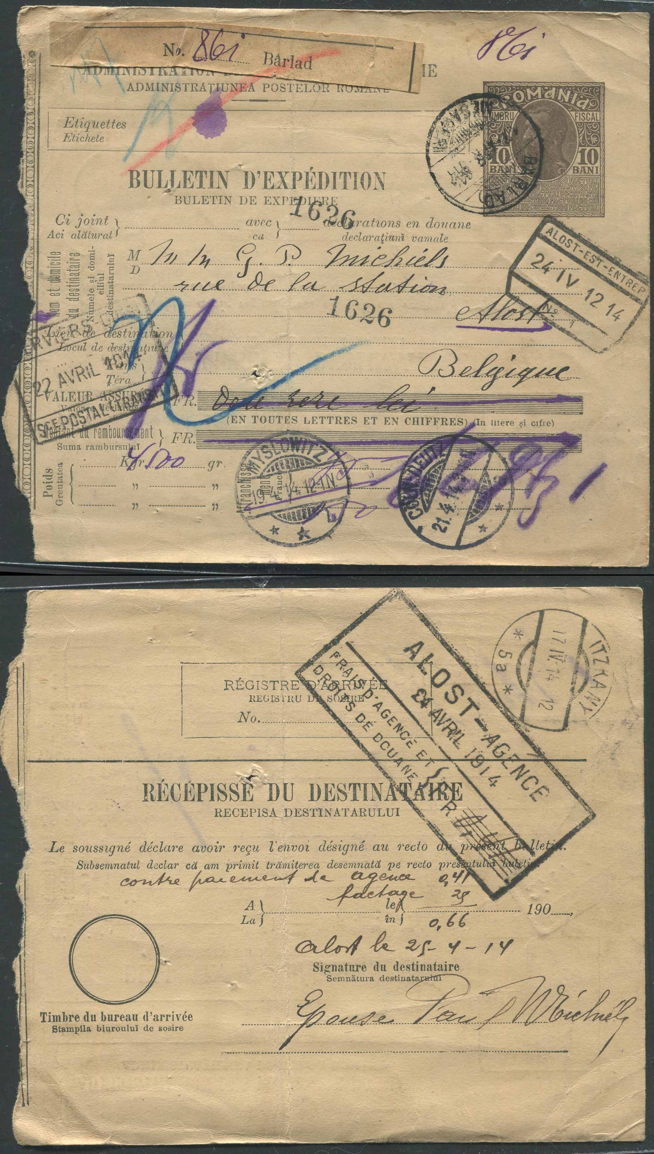 Bulletin d'expédition 1914 Romania Barlad to Belgium 1914.